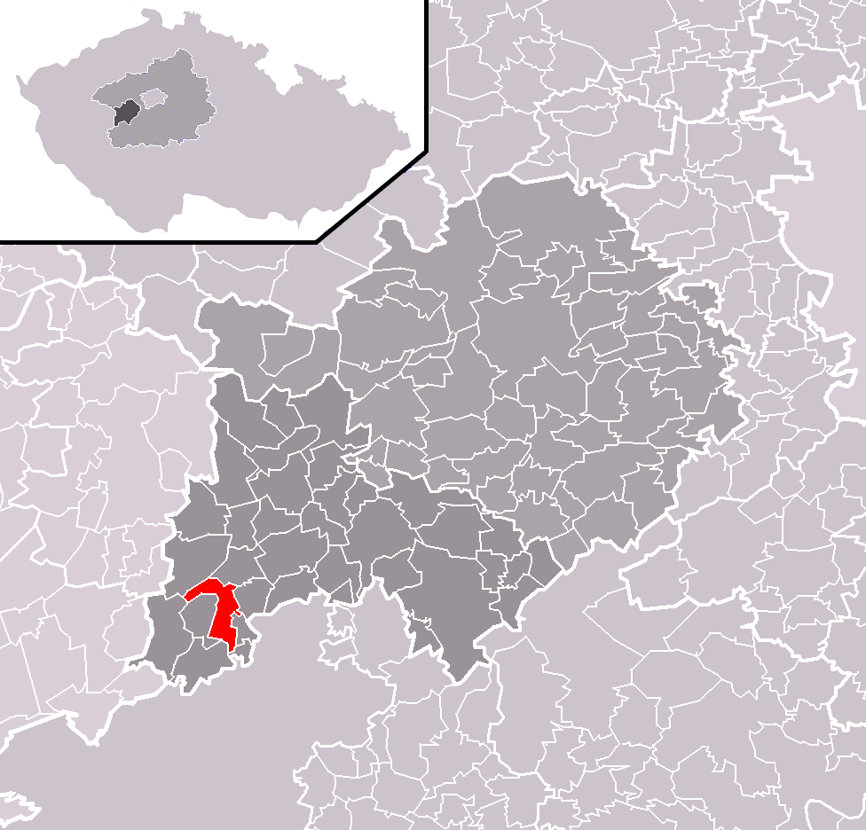 Location of Komárov municipality within Beroun District and administrative area of Hořovice as a Municipality with Extended Competence.